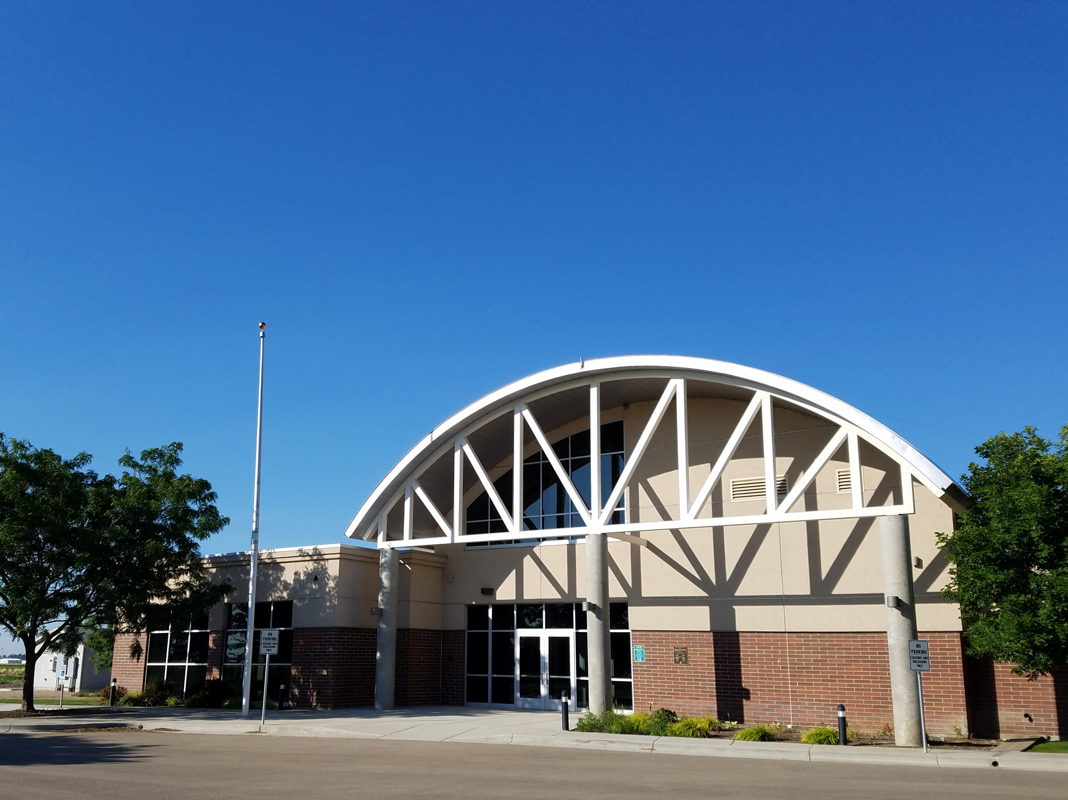 The terminal building at the Caldwell Industrial Airport in Caldwell, Idaho.